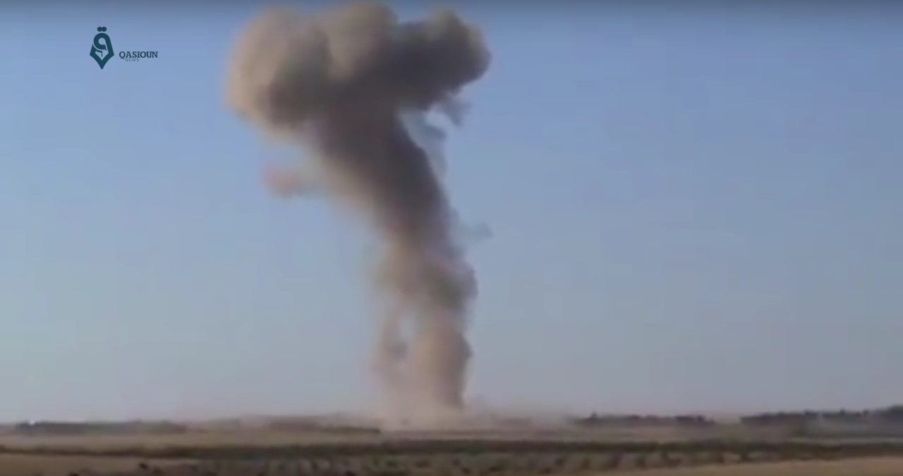 Smoke plume after a suspected car bomb was hit by artillery projectile/missile, during the Manbij offensive in June 2016.